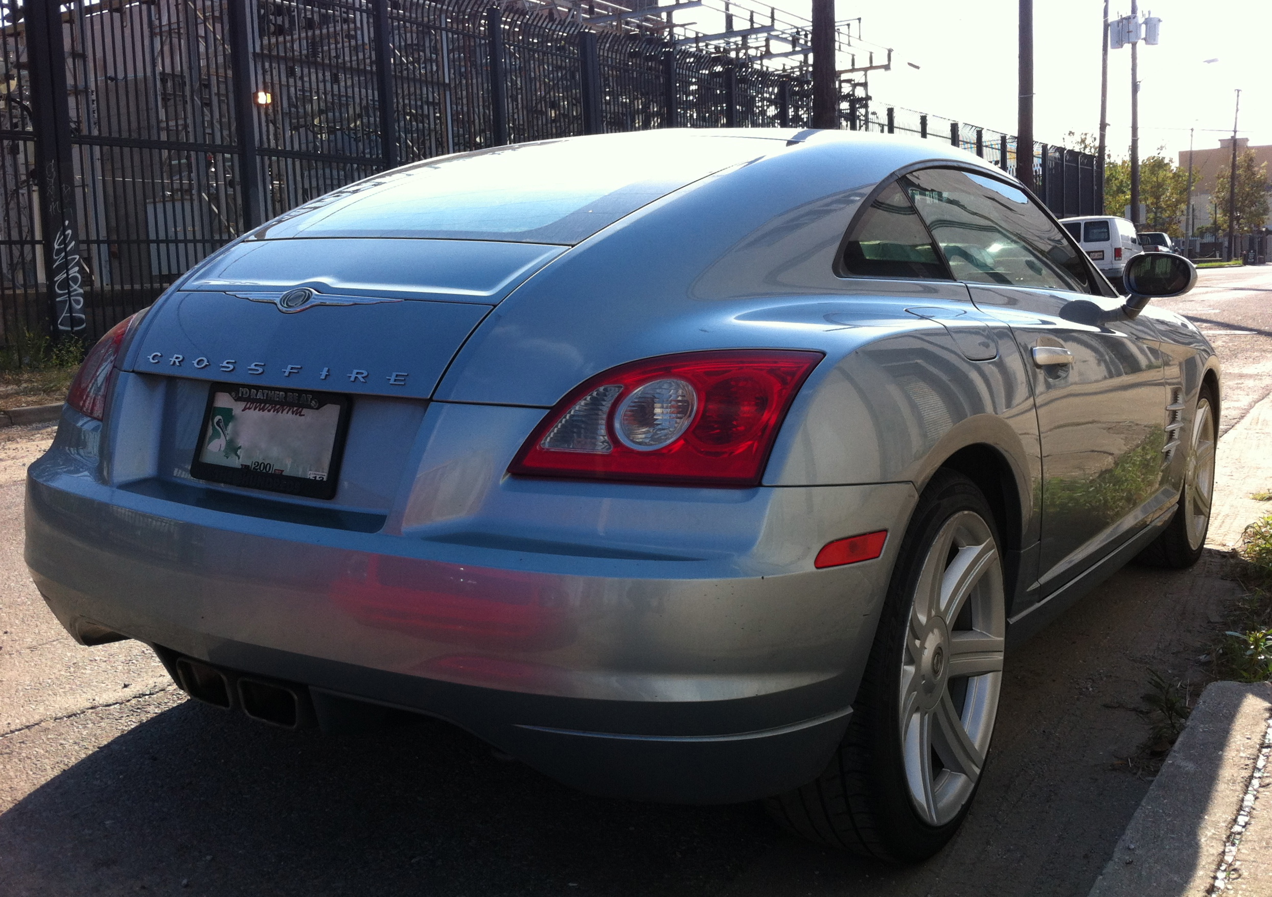 Chrysler Crossfire fastback coupe on Decatur Street in New Orleans - rear right view.